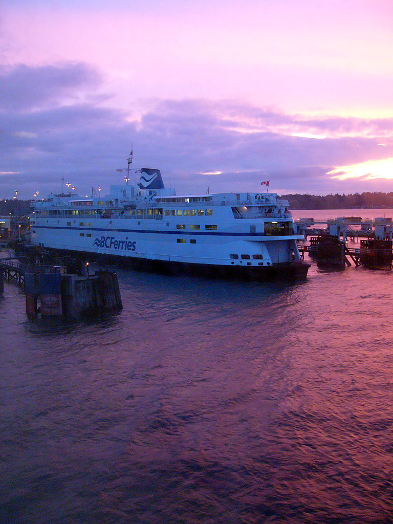 Tsawwassen_ferry